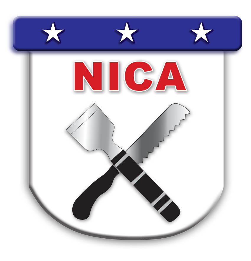 The National Ice Carving Association Logo